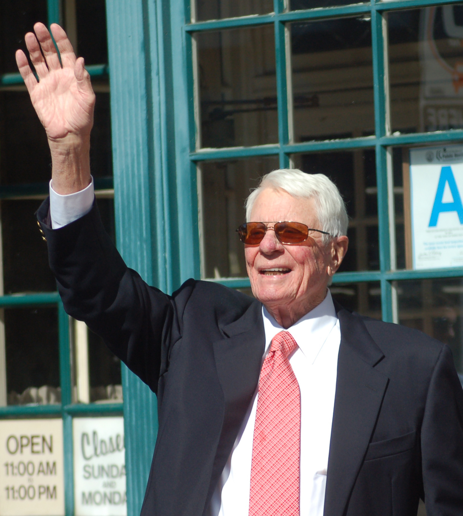 Peter Graves attending a ceremony to receive a star on the Hollywood Walk of Fame.